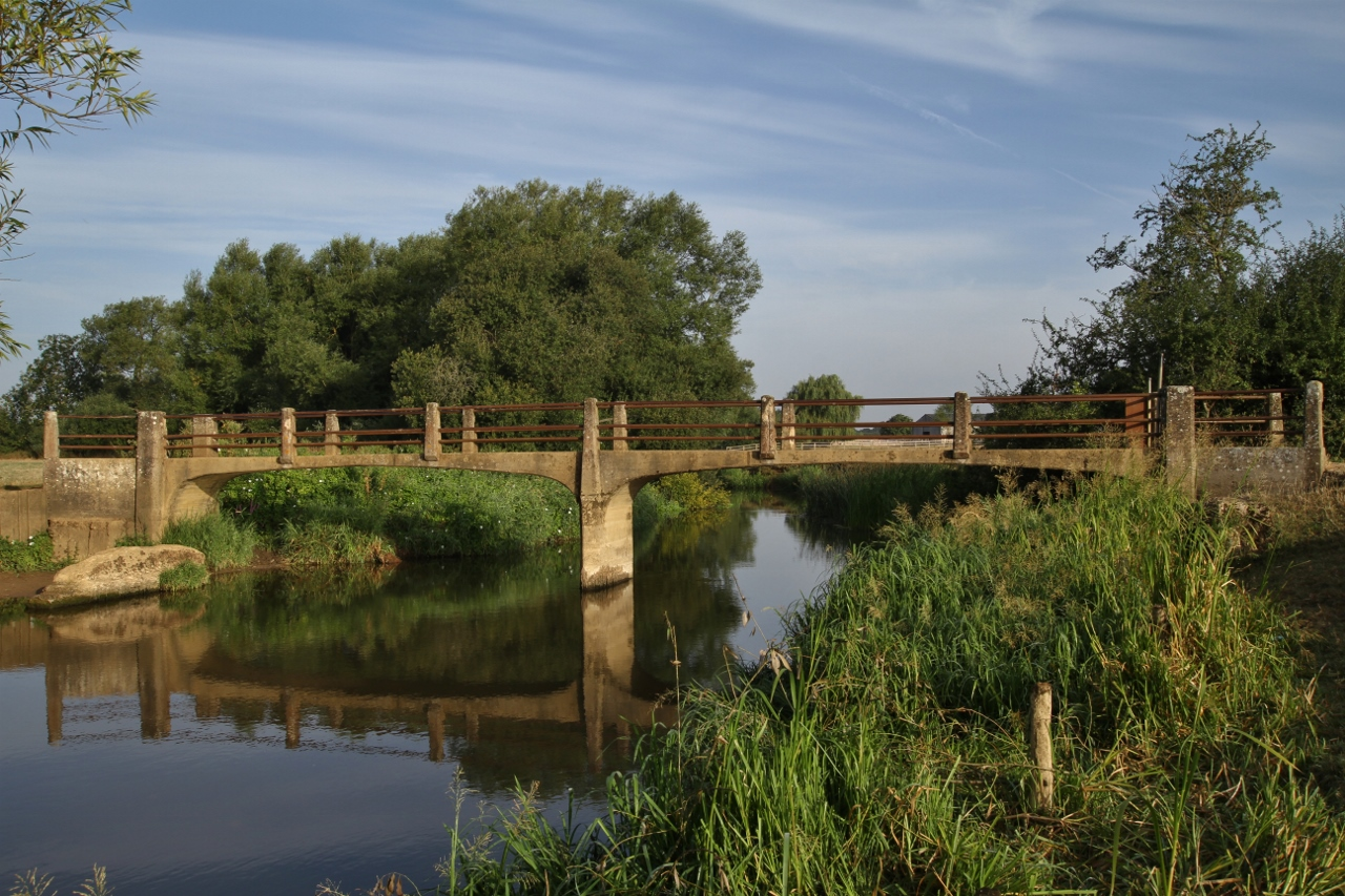 Footbridge over the River Cherwell south of Hampton Poyle, Oxfordshire, seen from the east